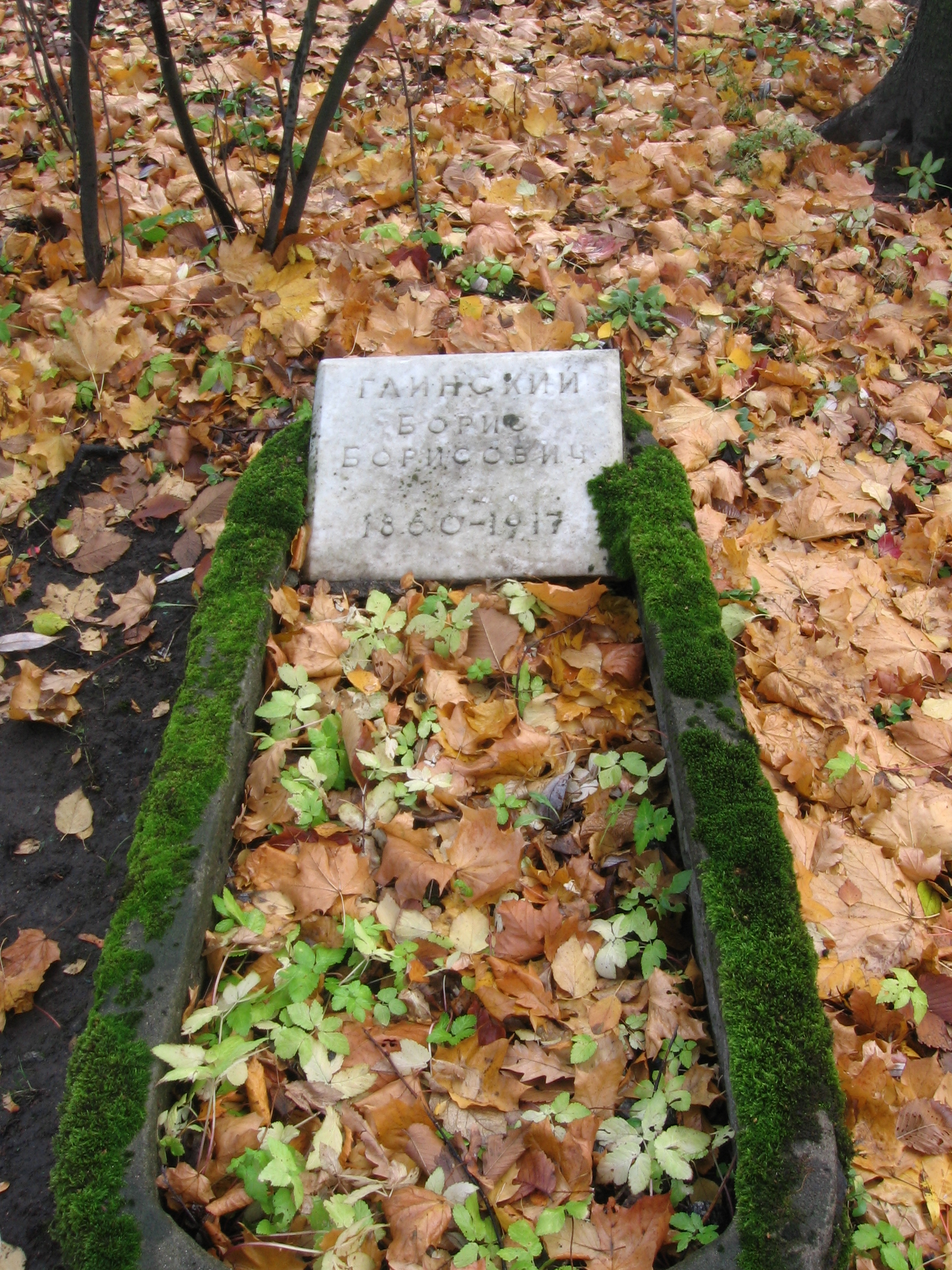 Grave of Boris Glinsky